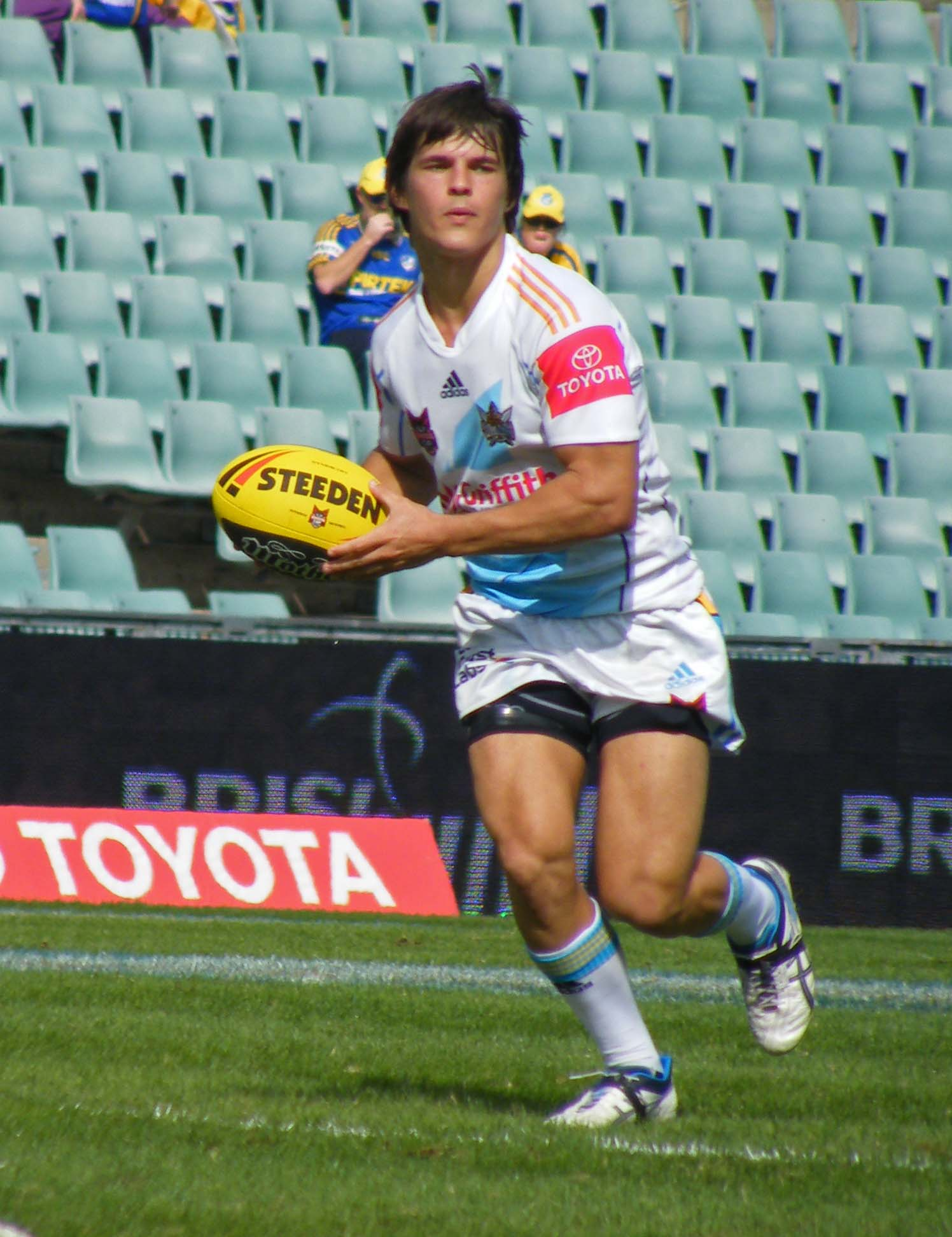 Sam Irwin